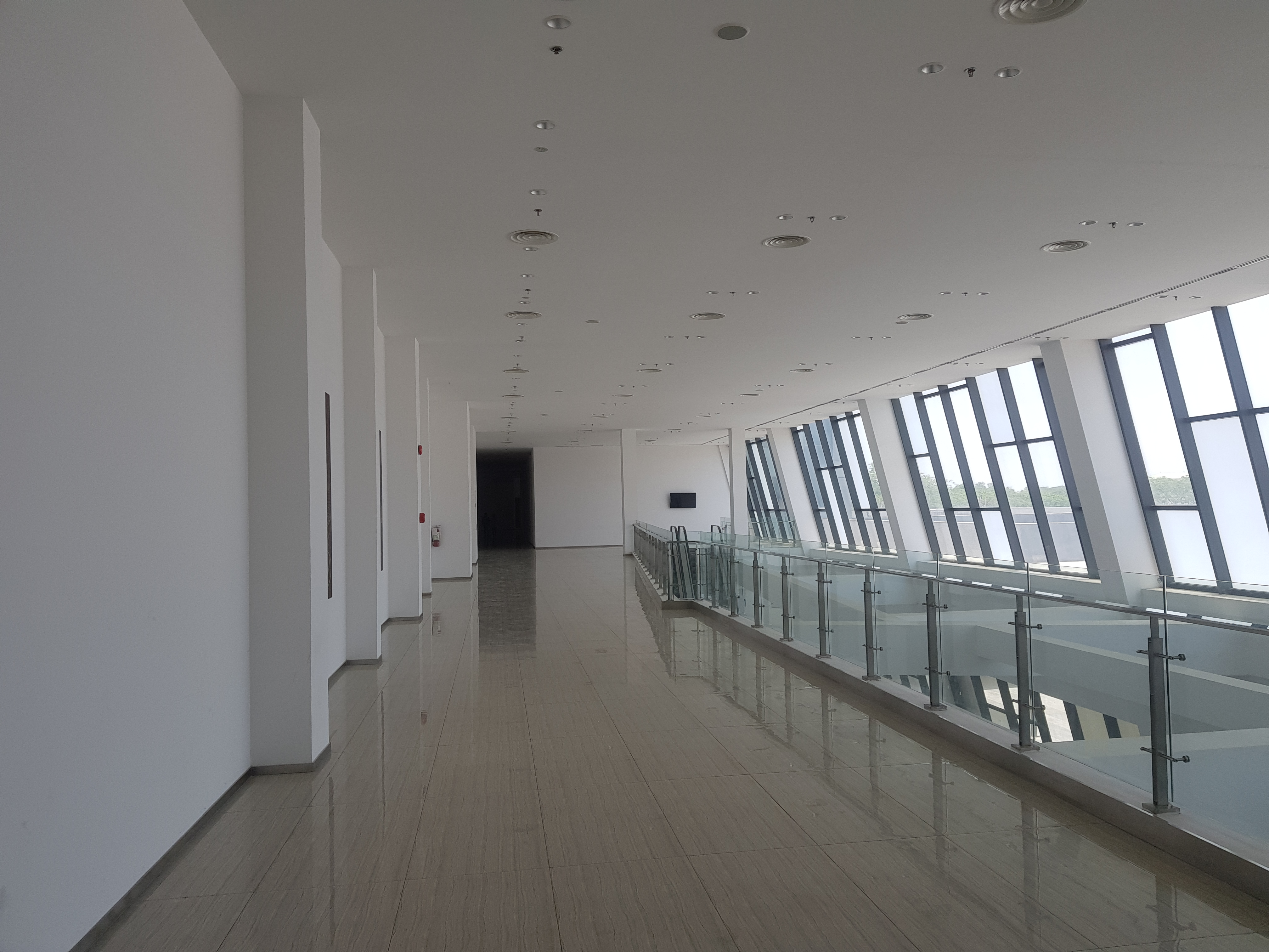 2nd floor of Mandalay Convention Centre